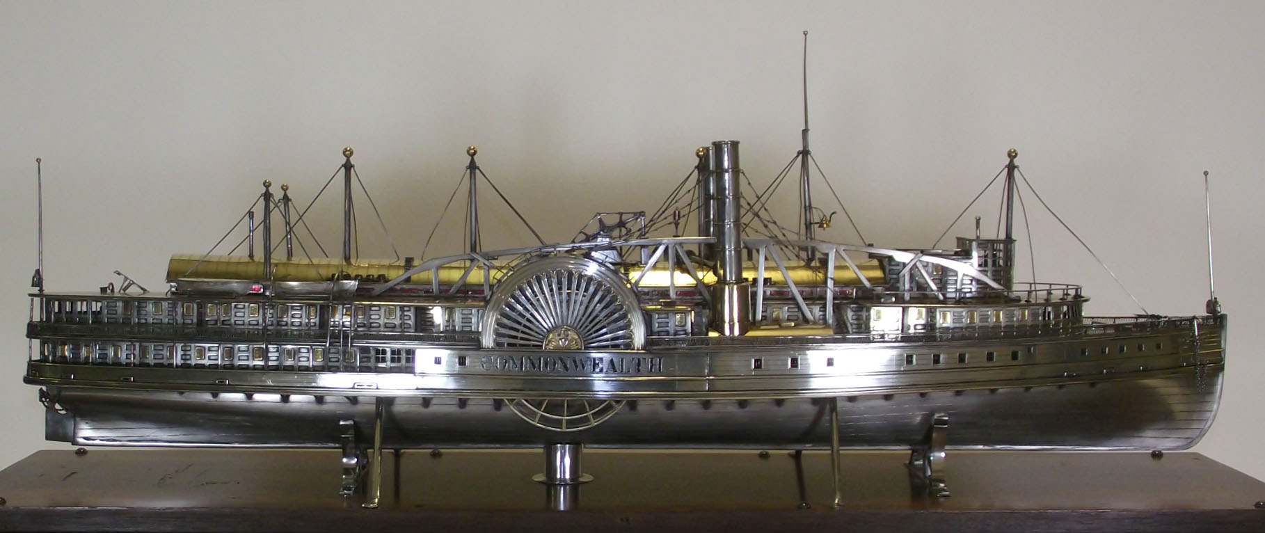 This model of the steamboat Commonwealth is made of gold and silver and is also a music box, playing ten popular tunes from the period it was created (ca 1864). It is currently in the collection at The Mariners' Museum. As the music plays, the paddlewheels and walking beam are set in motion. This model was exhibited in Paris in 1878 and also at the World's Fair in New York City in 1940. I took a picture of this model at the museum for the express purpose of uploading it on Wikipedia to share it with others.